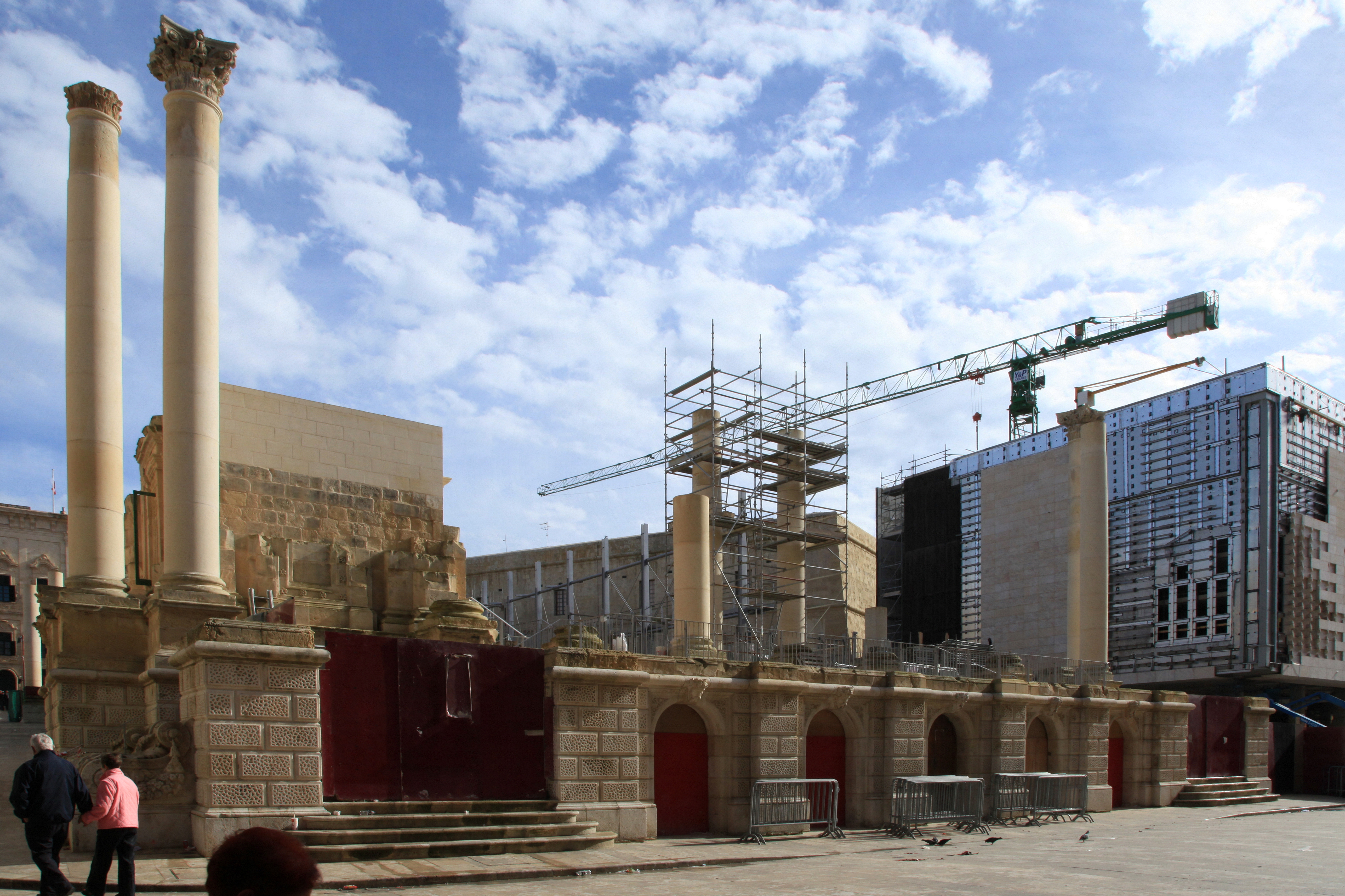 Royal Opera House and New Parliament Building, Triq ir-Repubblika in Valletta, Malta